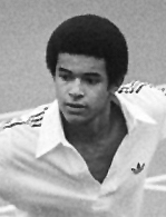 French tennis player Yannick Noah in a 1979 Davis Cup match against The Netherlands in Amsterdam